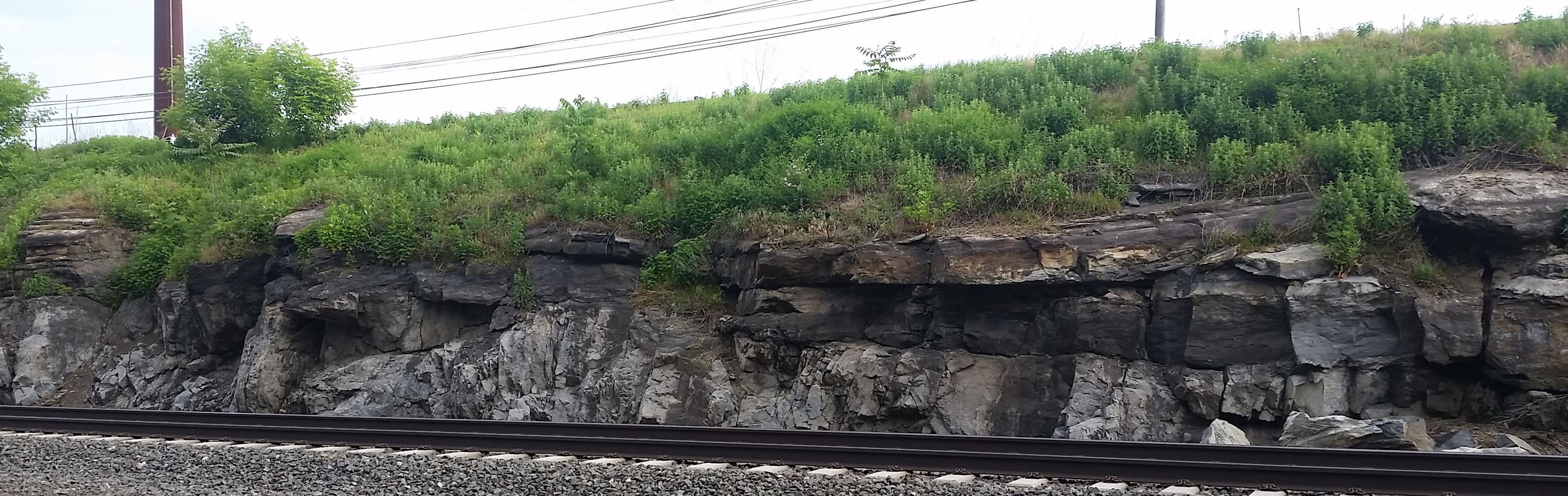 Type-section outcrop of the Vintage Dolomite overlain by Kinzers Formation along railroad tracks in Vintage, Lancaster County, Pennsylvania. The Kinzers is the darker, layered rock above the lighter Vintage. Facing north.